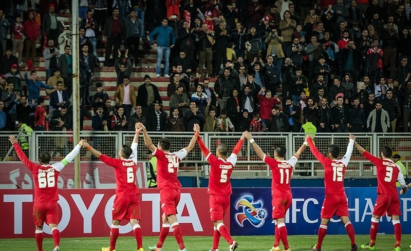 Tractor Sazi players after ACL match with Pakhtakor